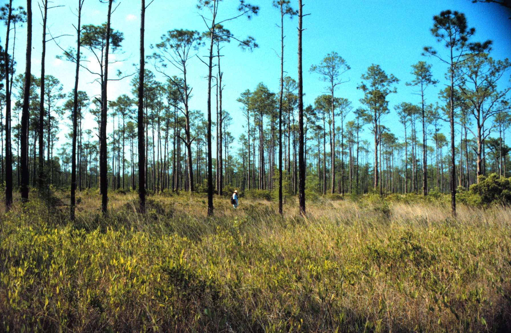 Grand Bay National Estuarine Research Reserve. Maritime slash pine Pinus elliottii savanna on MS/AL state line near Bayou Heron. MS Natural Heritage Program NERR Biological Assessment. 1998. Image ID: nerr0754, NOAA's Estuarine Research Reserve Collection Photographer: P. R. Hoar, NOAA/NESDIS/NCDDC National Oceanic and Atmospheric Administration/Department of Commerce